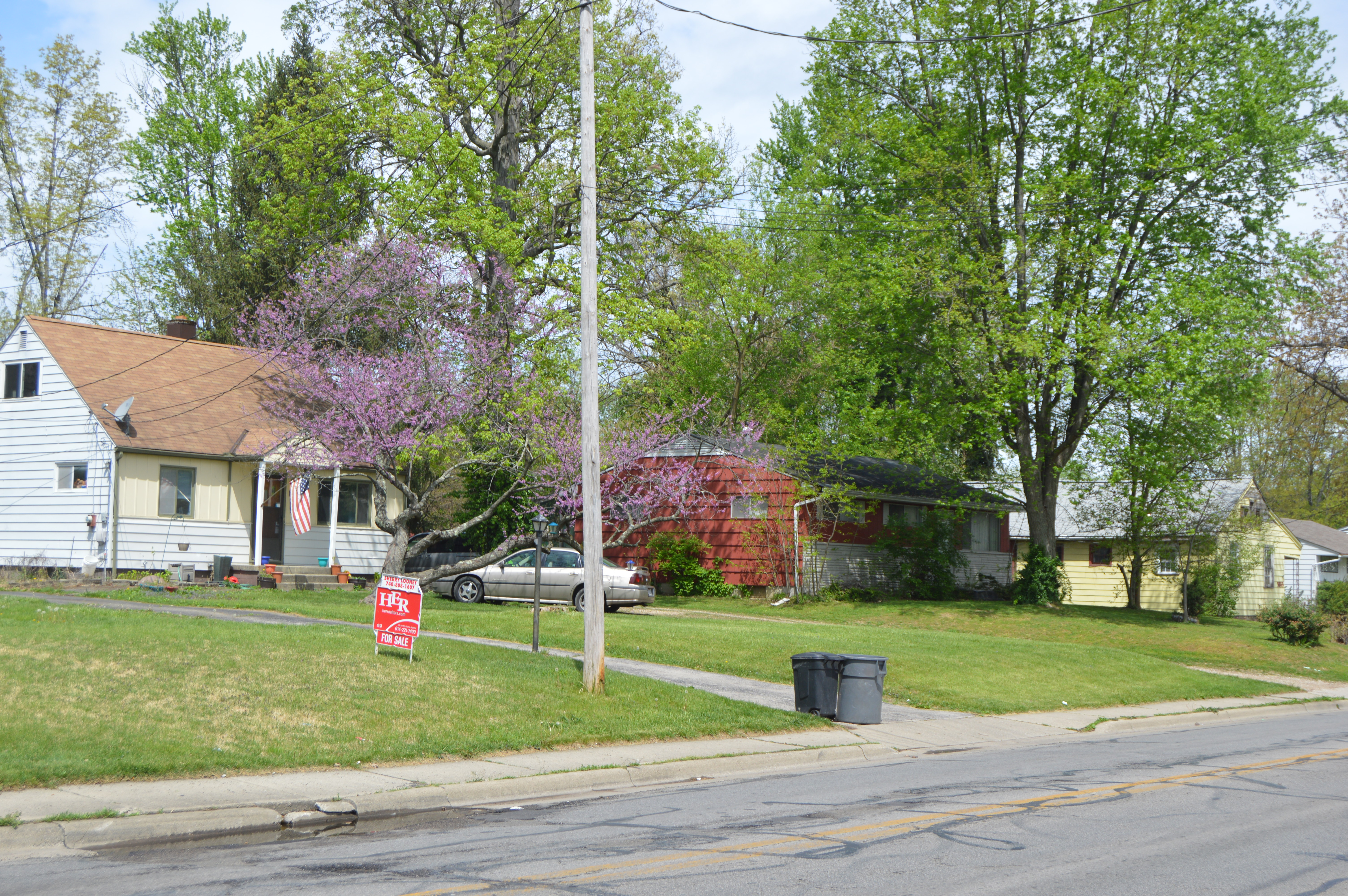 Houses on the western side of Walford Street, seen looking north from the Radnor Avenue intersection, in Clinton Township, Franklin County, Ohio, United States.